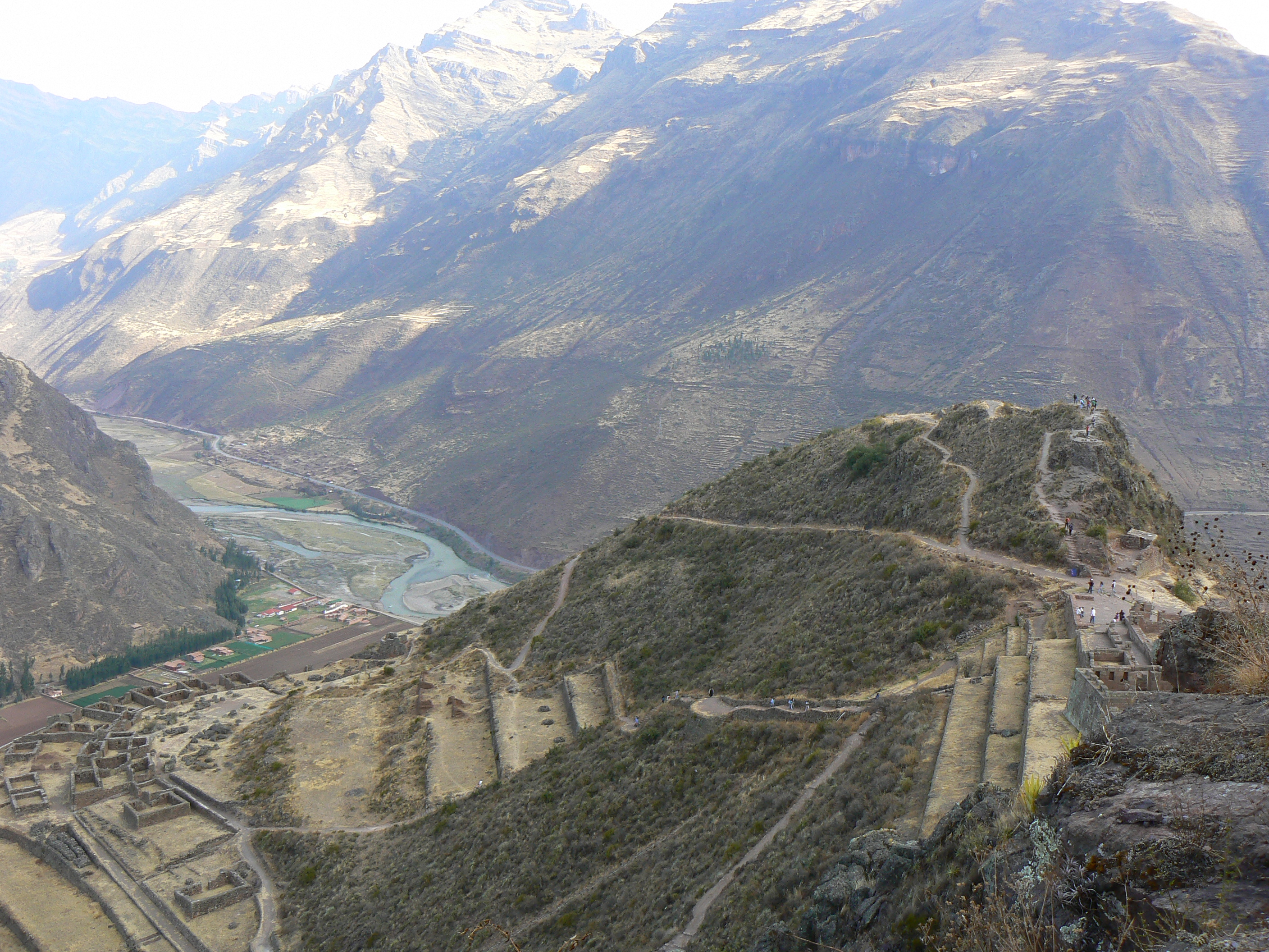 An overview of the Inca ruins above Pisac, Peru, showing the Urubamba river at the bottom of the Sacred Valley.